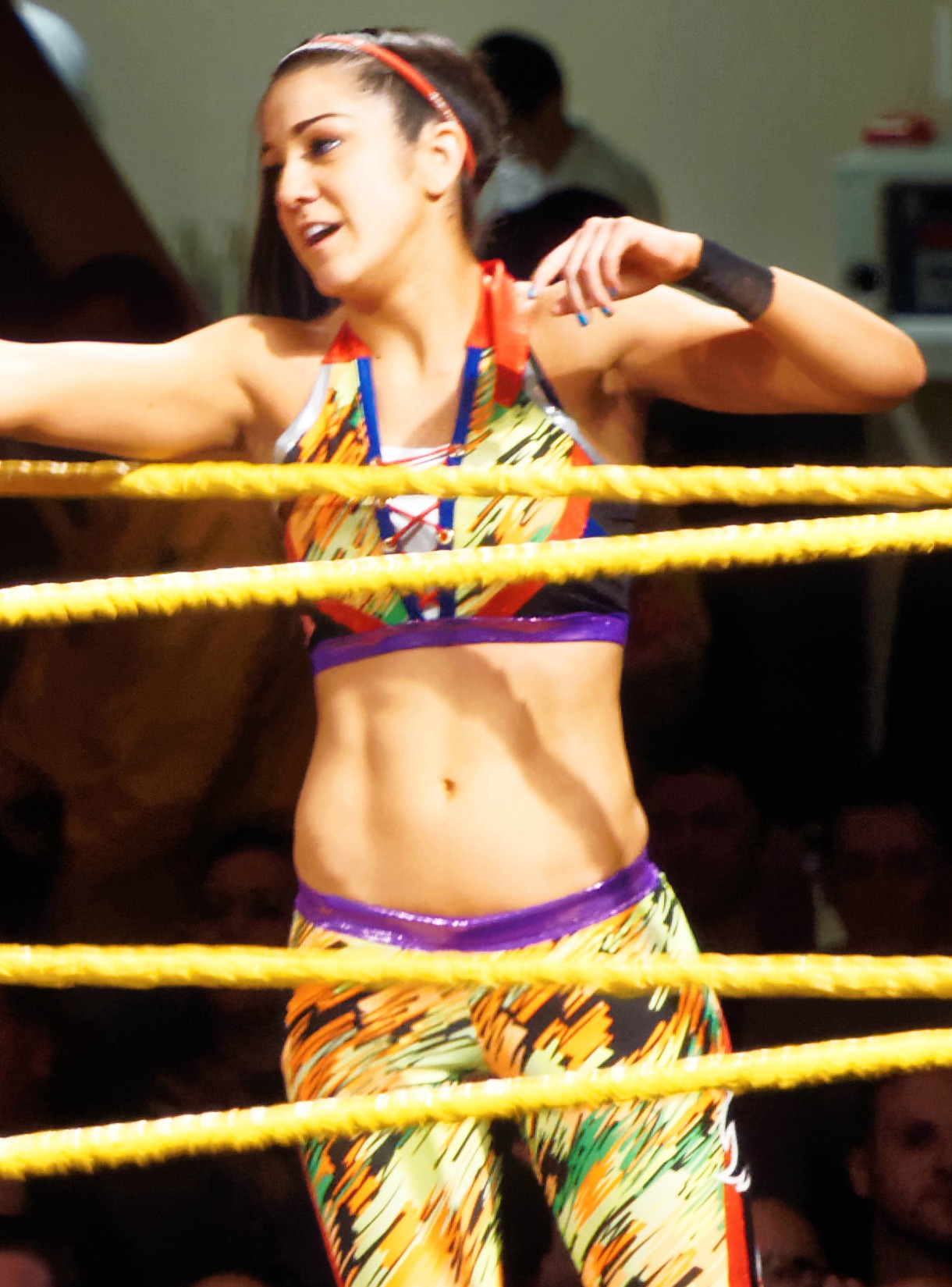 Bayley at WWE's WrestleMania 31 Axxess on March 27, 2015, cropped form the original.